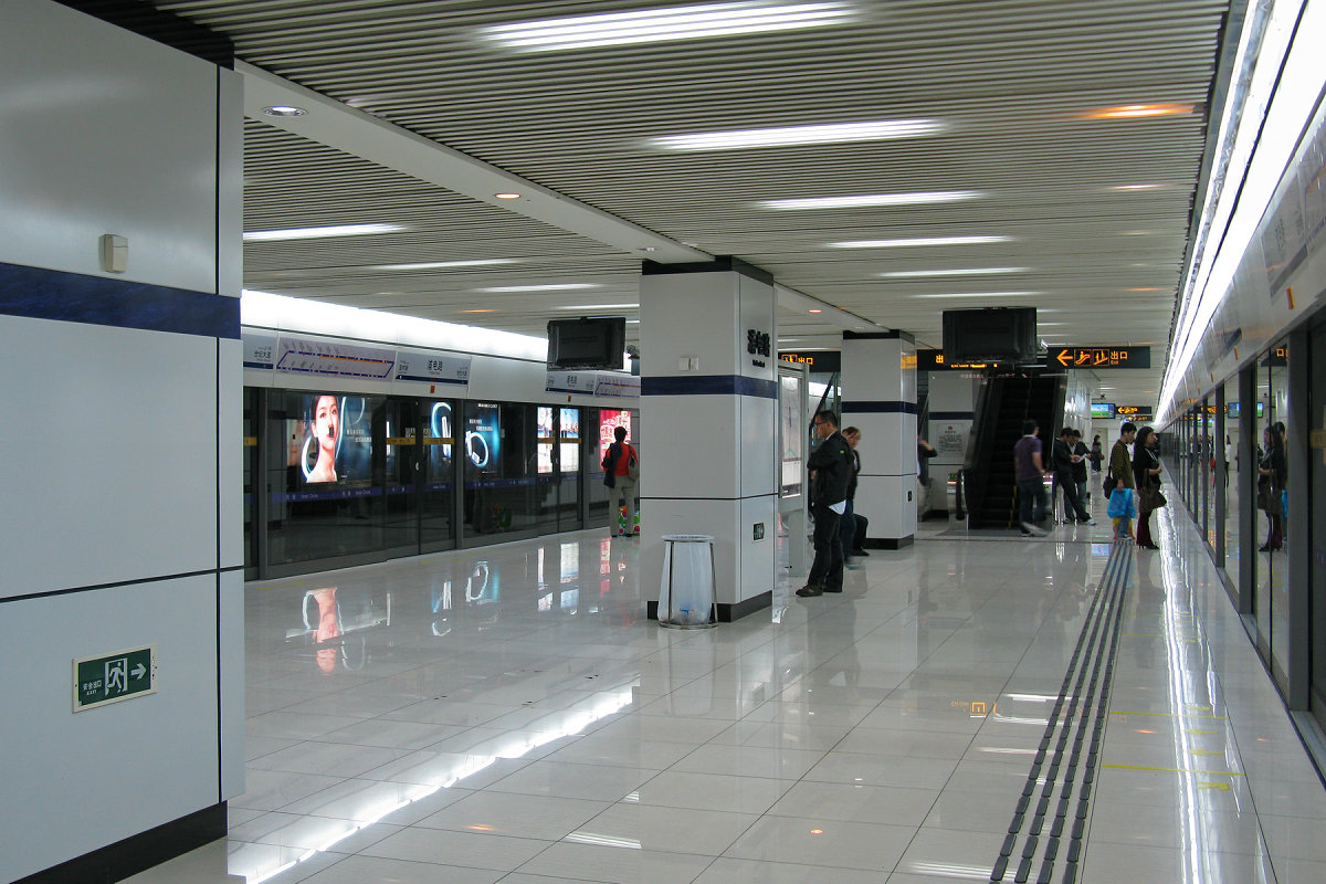 Line 4 Platform of Pudian Road Station, Shanghai Metro